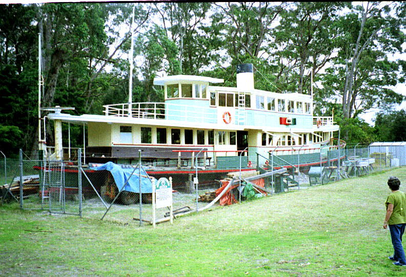 Sydney ferry LADY DENMAN in Huskisson 1999. Graeme Andrews, Ferry LADY DENMAN at Lady Denman Museum Huskisson. (01/01/1999 - 31/12/1999), [A-00076026]. City of Sydney Archives, accessed 07 Jun 2020